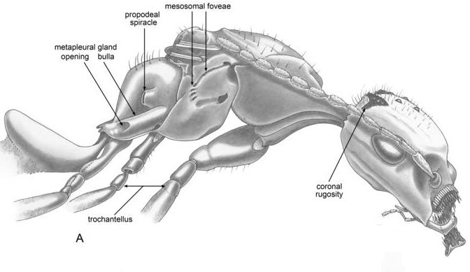 Drawings of holotype of Zigrasimecia tonsora, as preserved. (A) Head, mesosoma, and petiole, right lateral view.